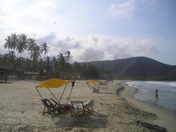 Patanemo beach in Venezuela